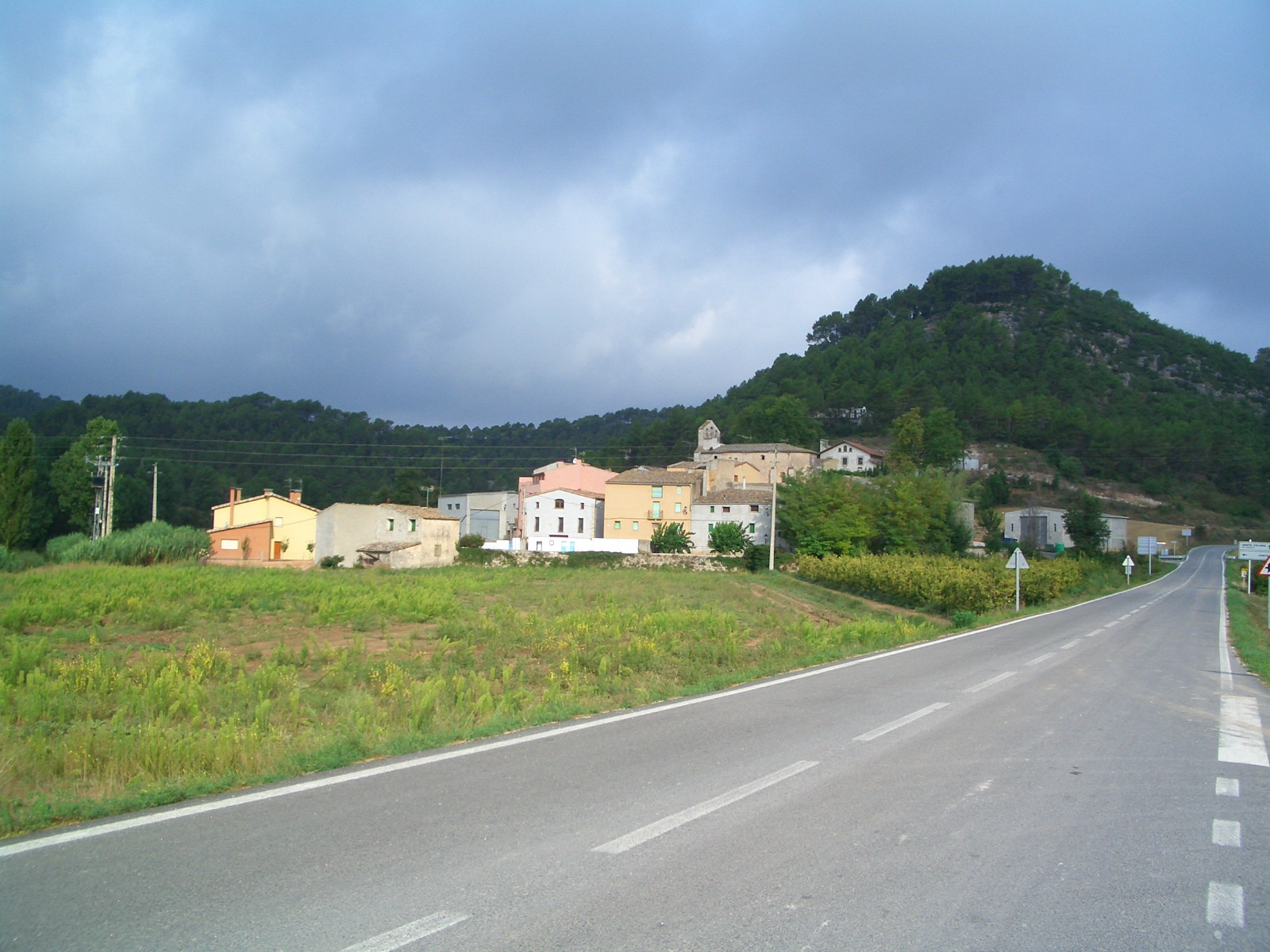 Picture of Pontils (Conca de Barberà, Catalonia)